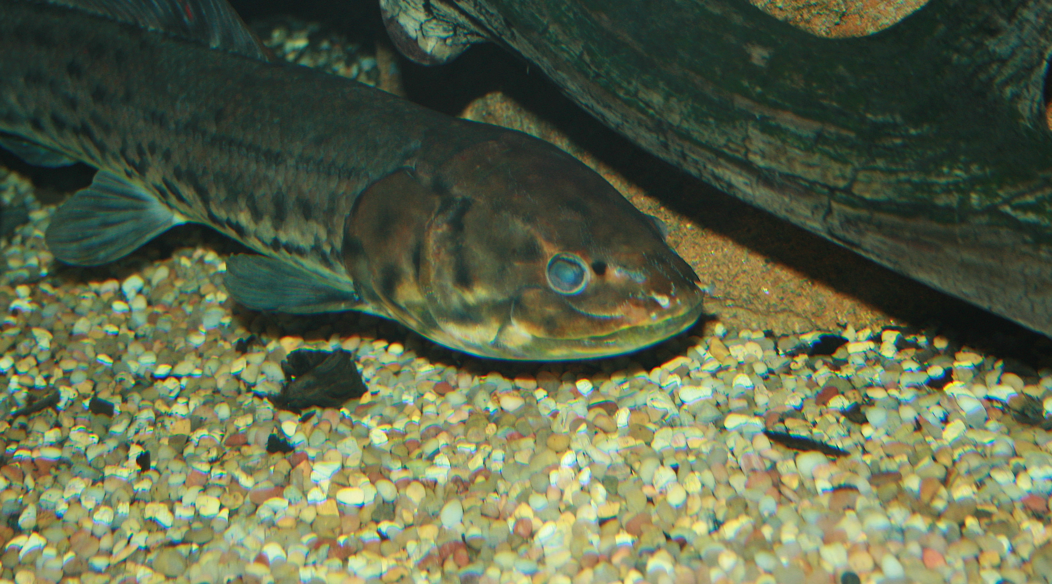 A unidentified fish at Shedd Aquarium. If you know the species please contact me Here. Thank you! This is a Bowfin, Amia calva Linnaeus, 1766, an amiid freshwater-fish from North-America --Lohachata (talk) 21:06, 16 December 2008 (UTC)